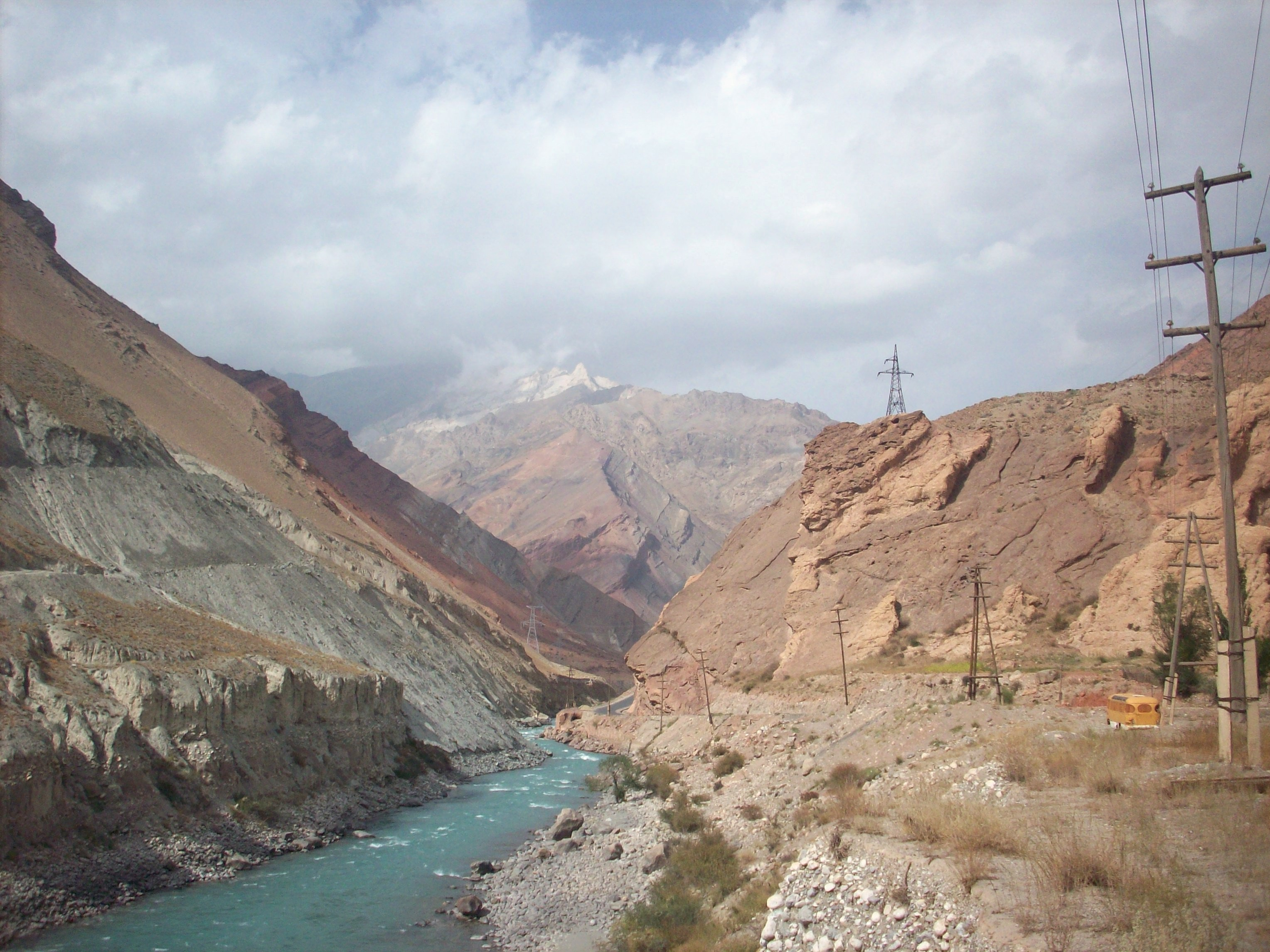 Untitled